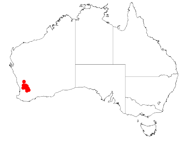 Acacia campylophylla Occurrence data from Australasia Virtual Herbarium downloaded from on 8 December 2018